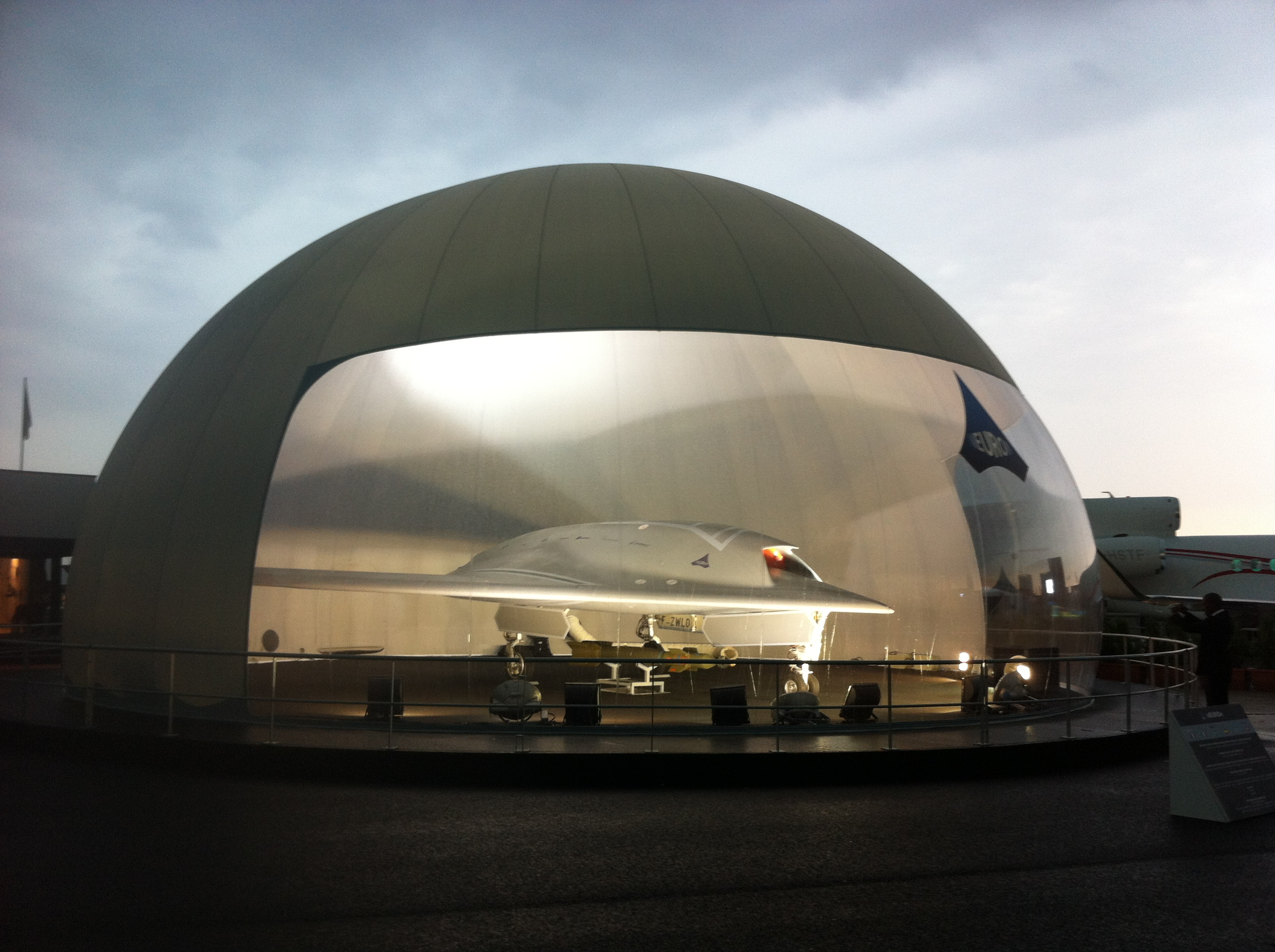 nEUROn at Paris Air Show 2013 - experimental Unmanned Combat Air Vehicle (UCAV)